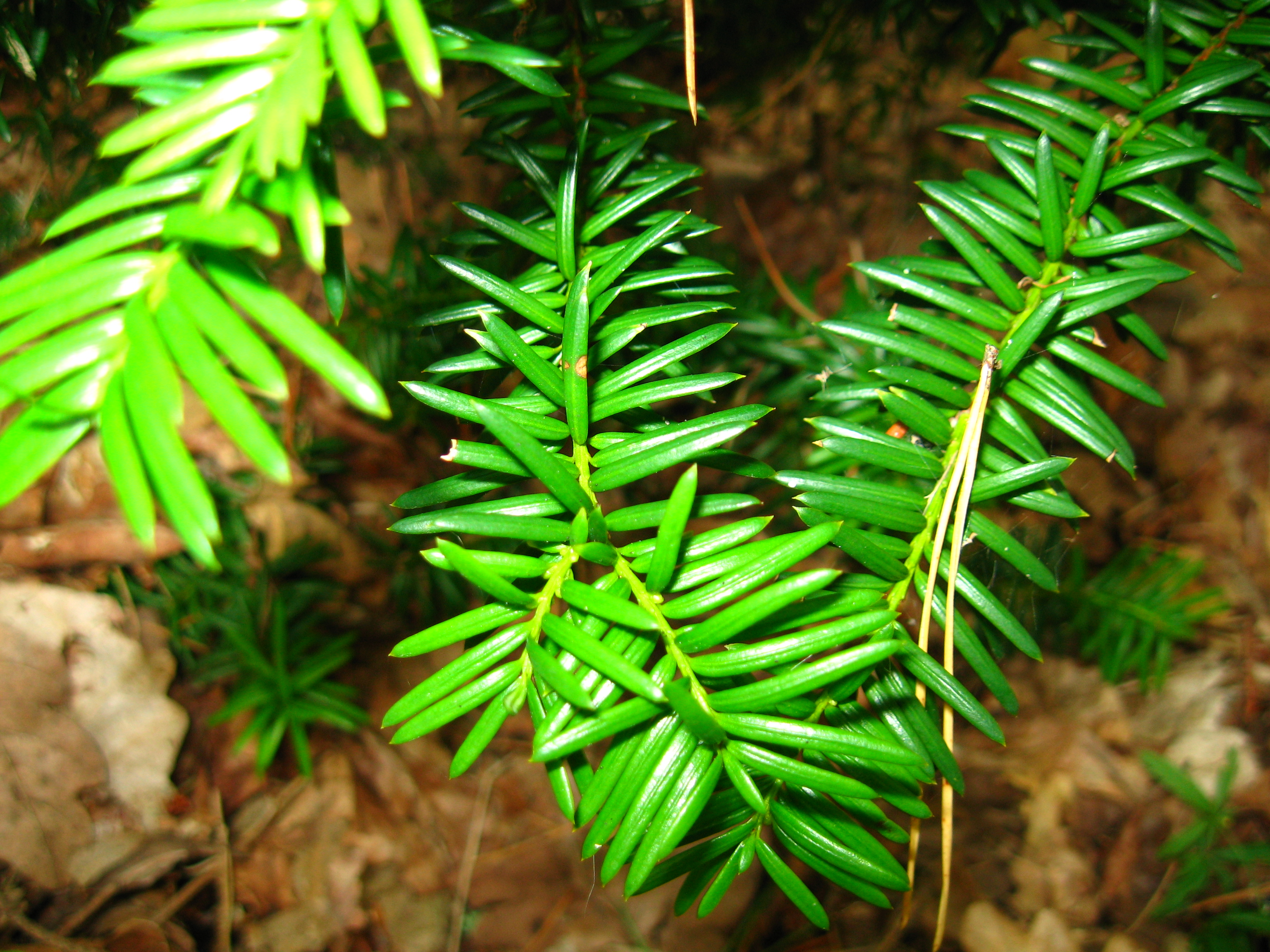 Taxus × media 'nidiformis'